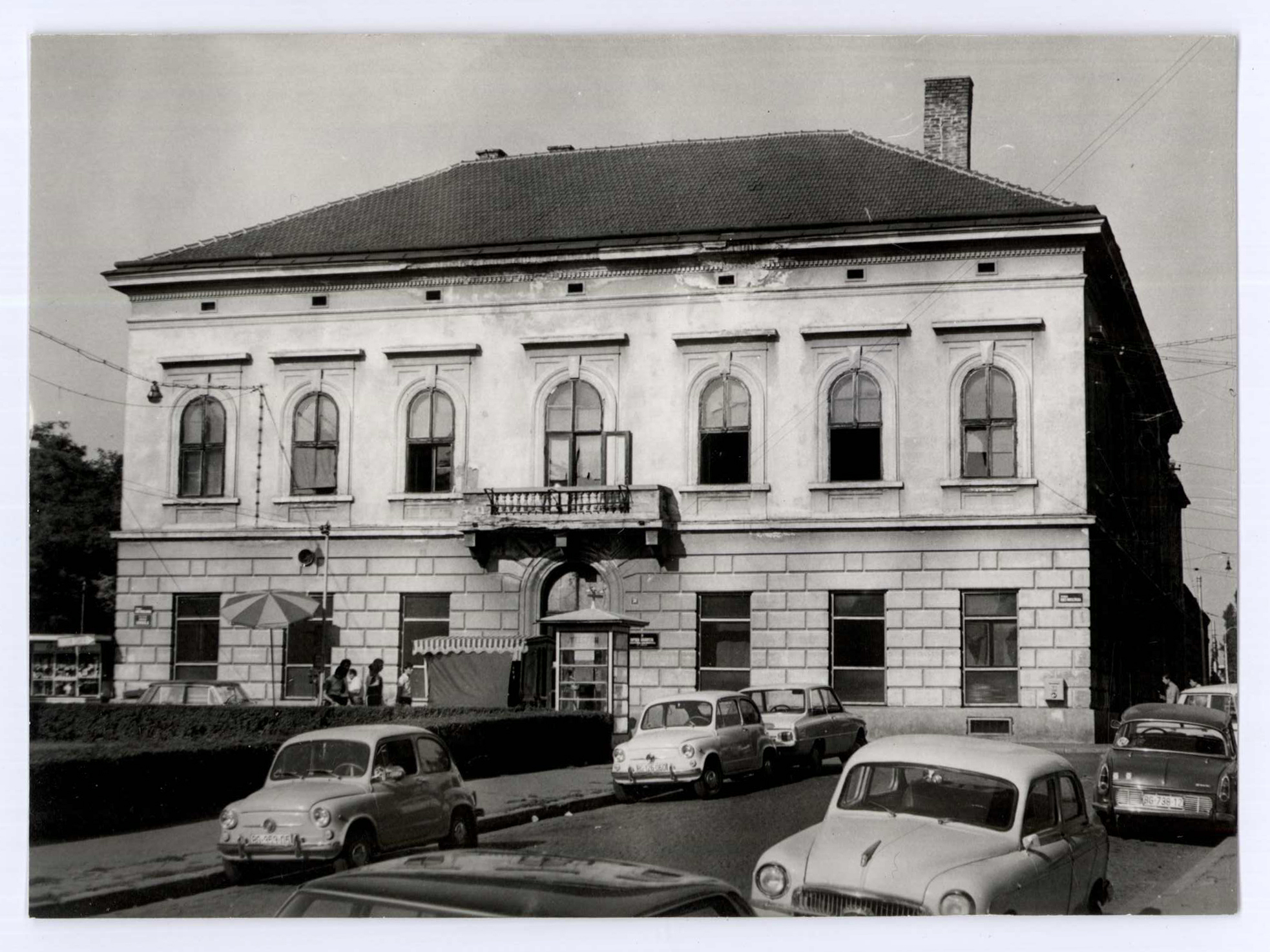 Hotel "Serbian Crown".